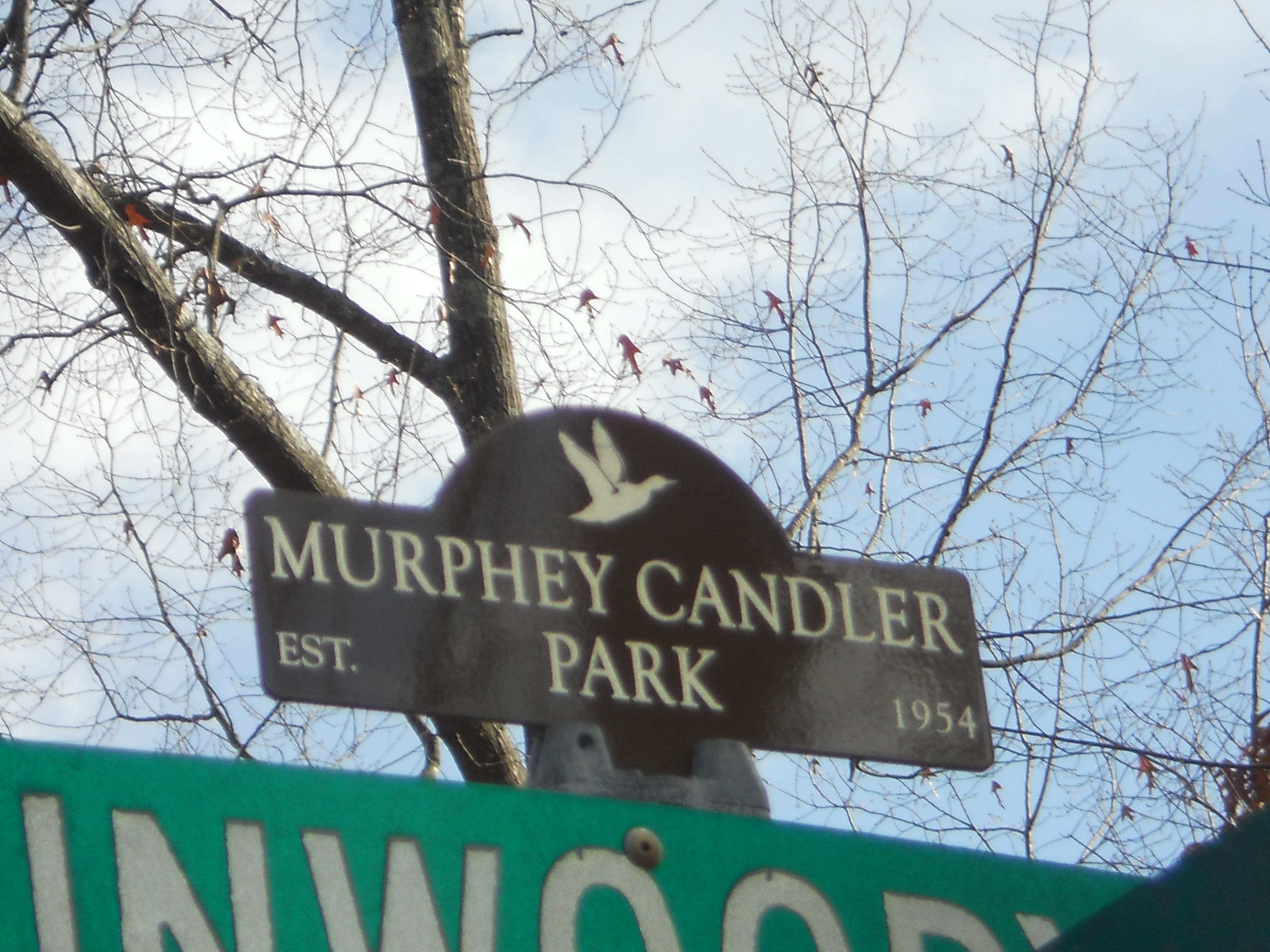 The Street Sign Topper for Murphey Candler Park — in Brookhaven (Atlanta), Georgia.